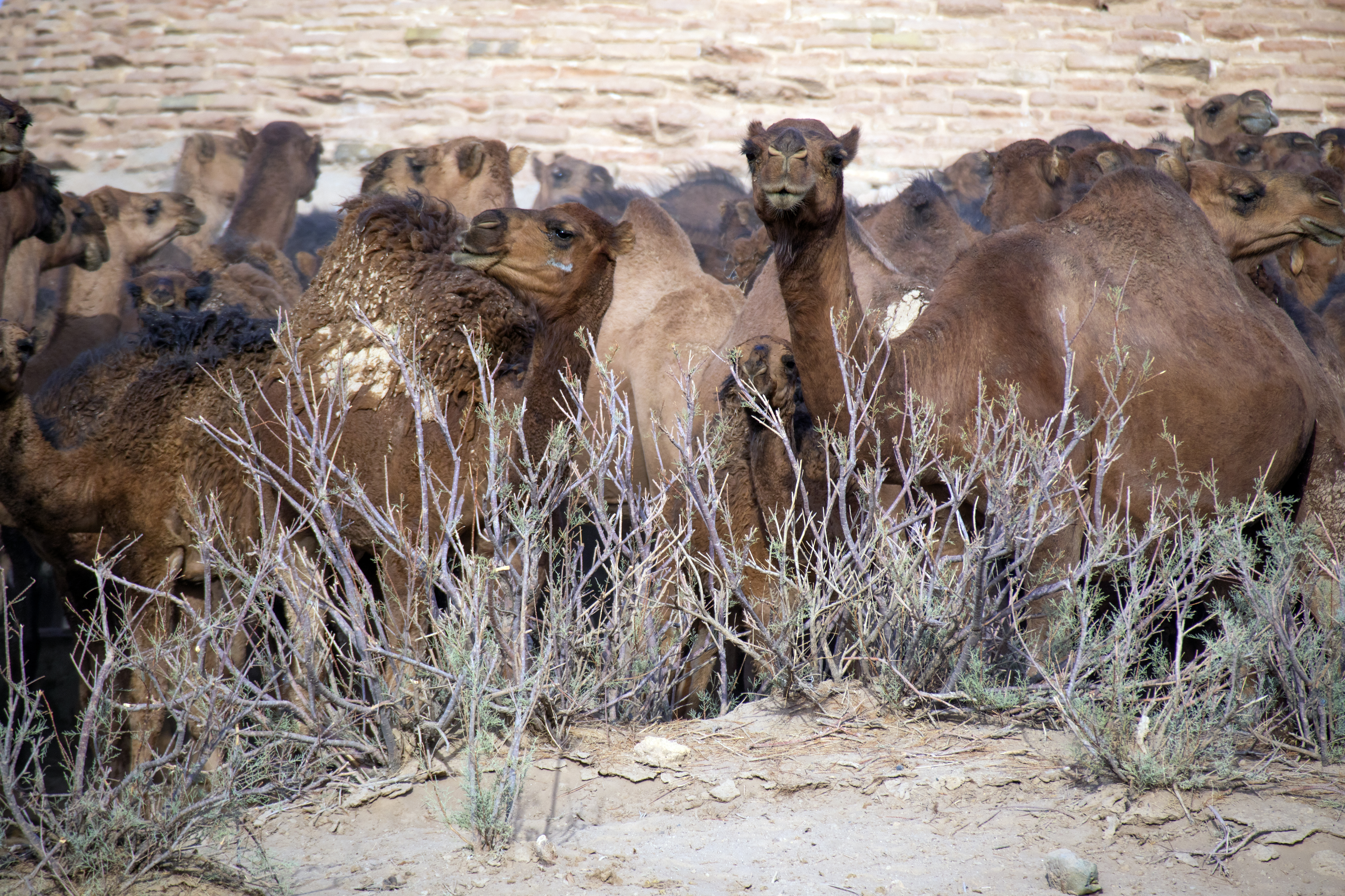 Deir-e Gachin Caravansarai is one of the greatest caravansarais of Iran which is located in the center of Kavir National Park. Its unique qualities is the reason it is called “Mother of Iranian Caravansarais”. It is located in the Central District of Qom County, 80 kilometers north-east of Qom (60 kilometers into Garmsar Freeway) and 35 kilometers south-west of Varamin. (Photo by: Mostafa Meraji, wiki loves monuments 2018)